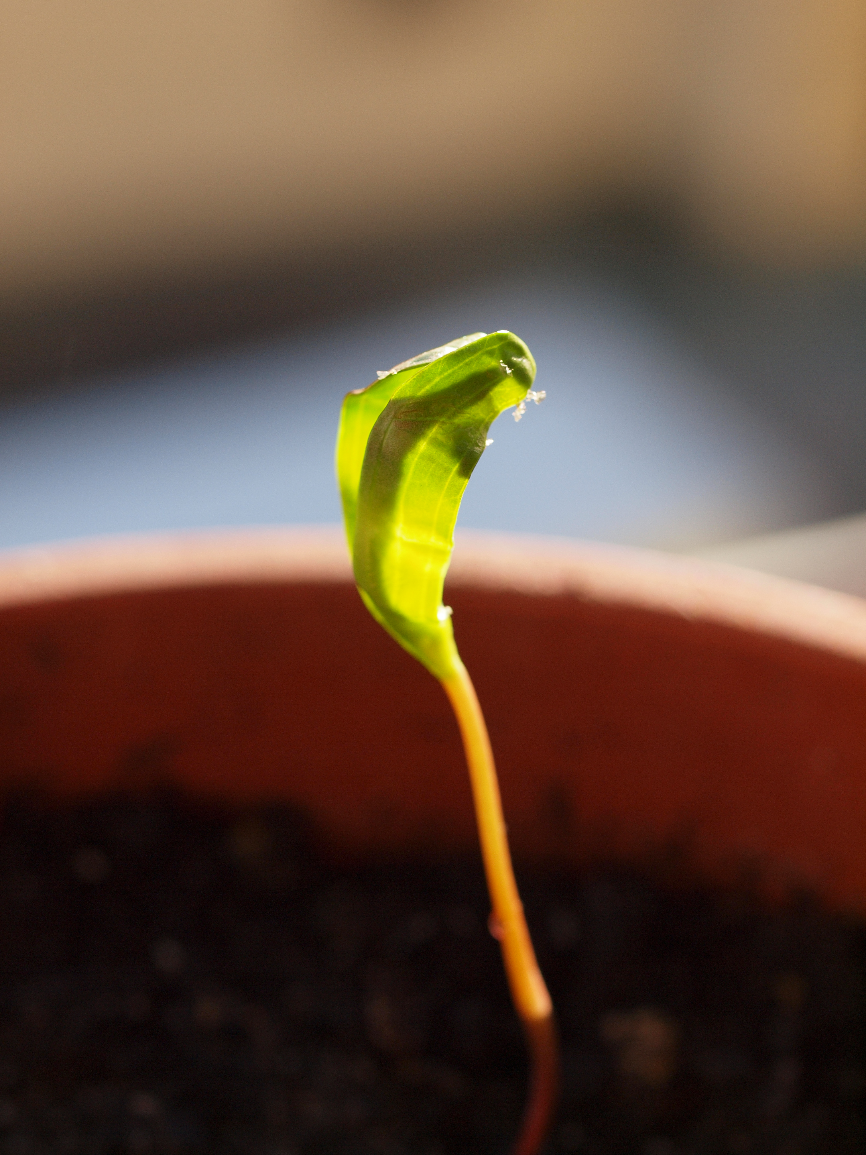 cotyledons Acer heldreichii Orph. ex Boiss. ssp. heldreichii